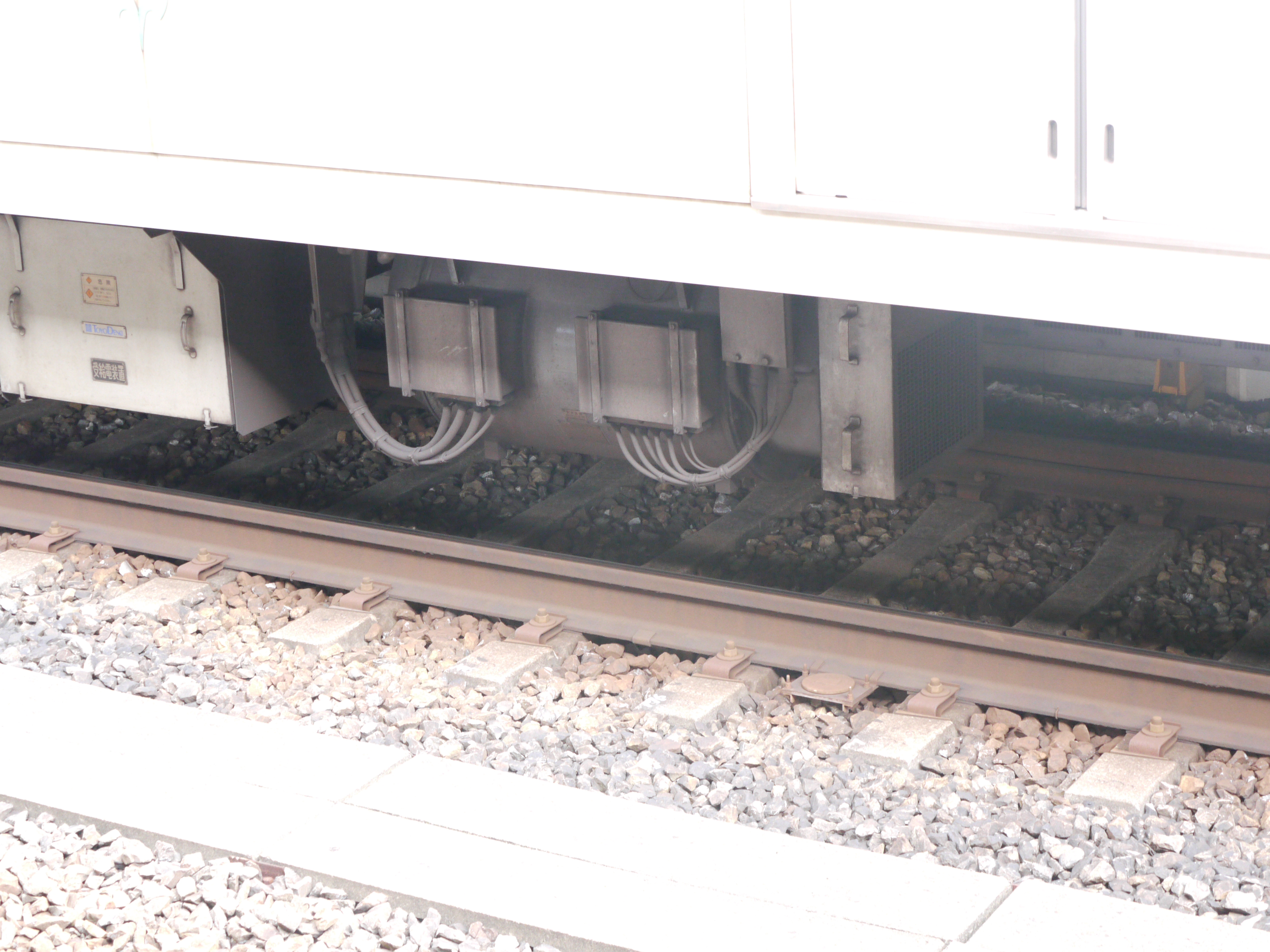 150 kVA Brush less motor generator on Kyoto subway 10 series